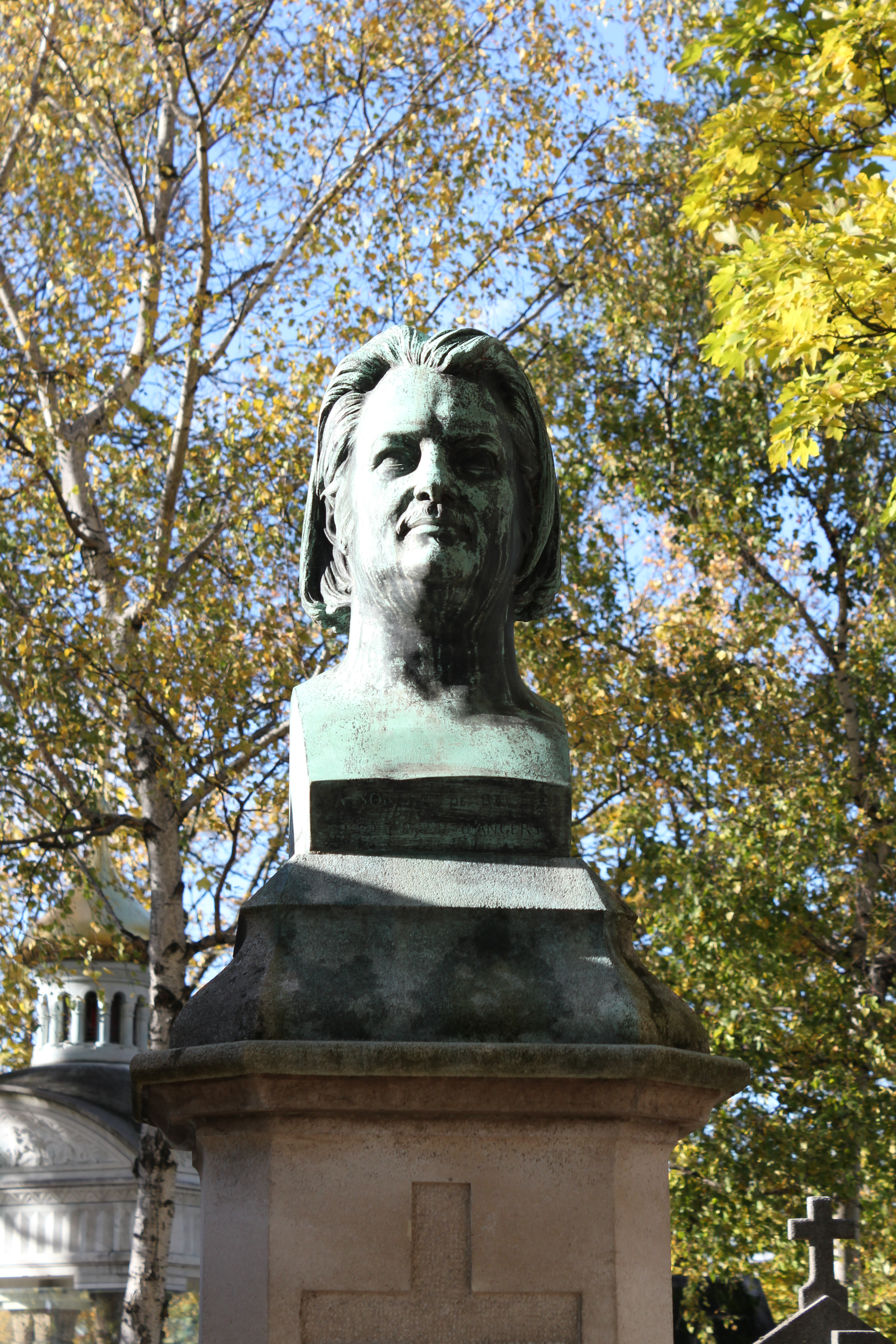 Stone surmounted by a bronze Herma, surrounded by a wrought iron fence.